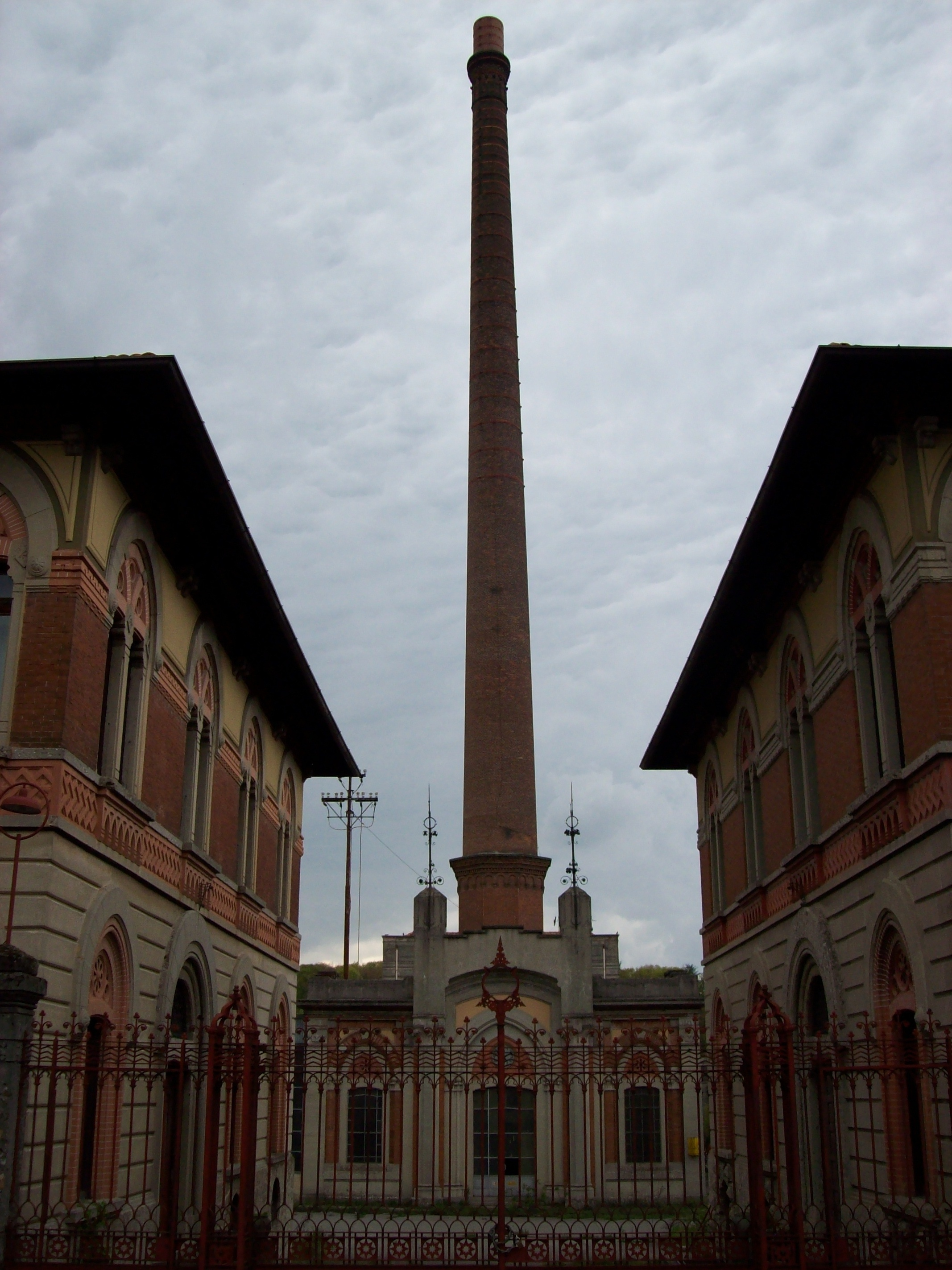 Crespi d'Adda workers' village (Capriate San Gervasio, province of Bergamo, Italy): the Crespi Cotton Mill's gate with its chimney